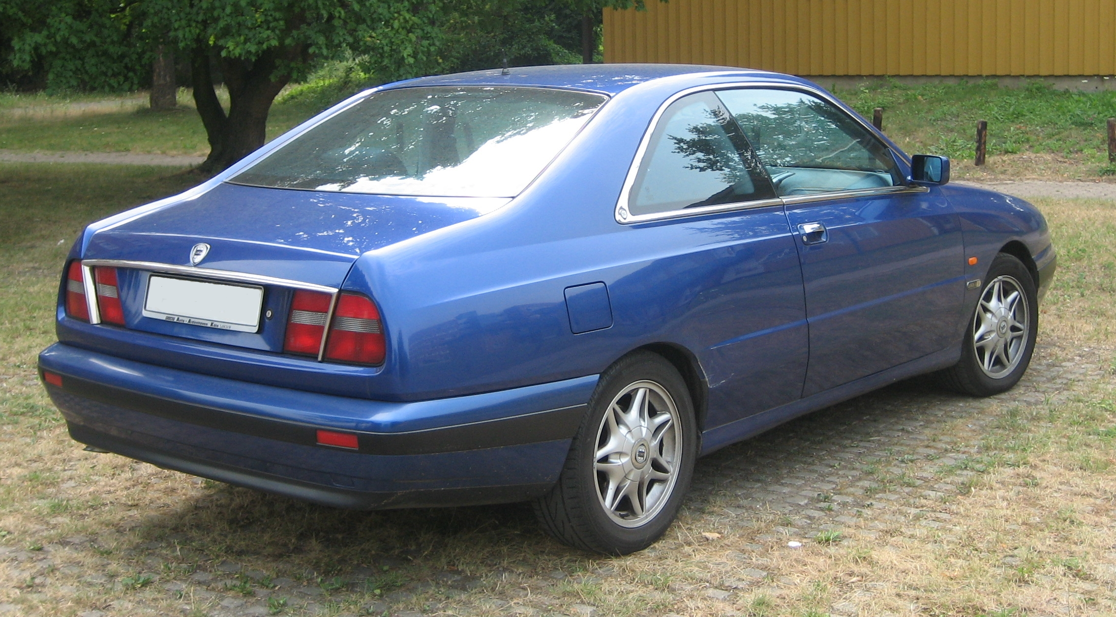 Lancia Kappa Coupé, blue, photographed in Efferen, Germany